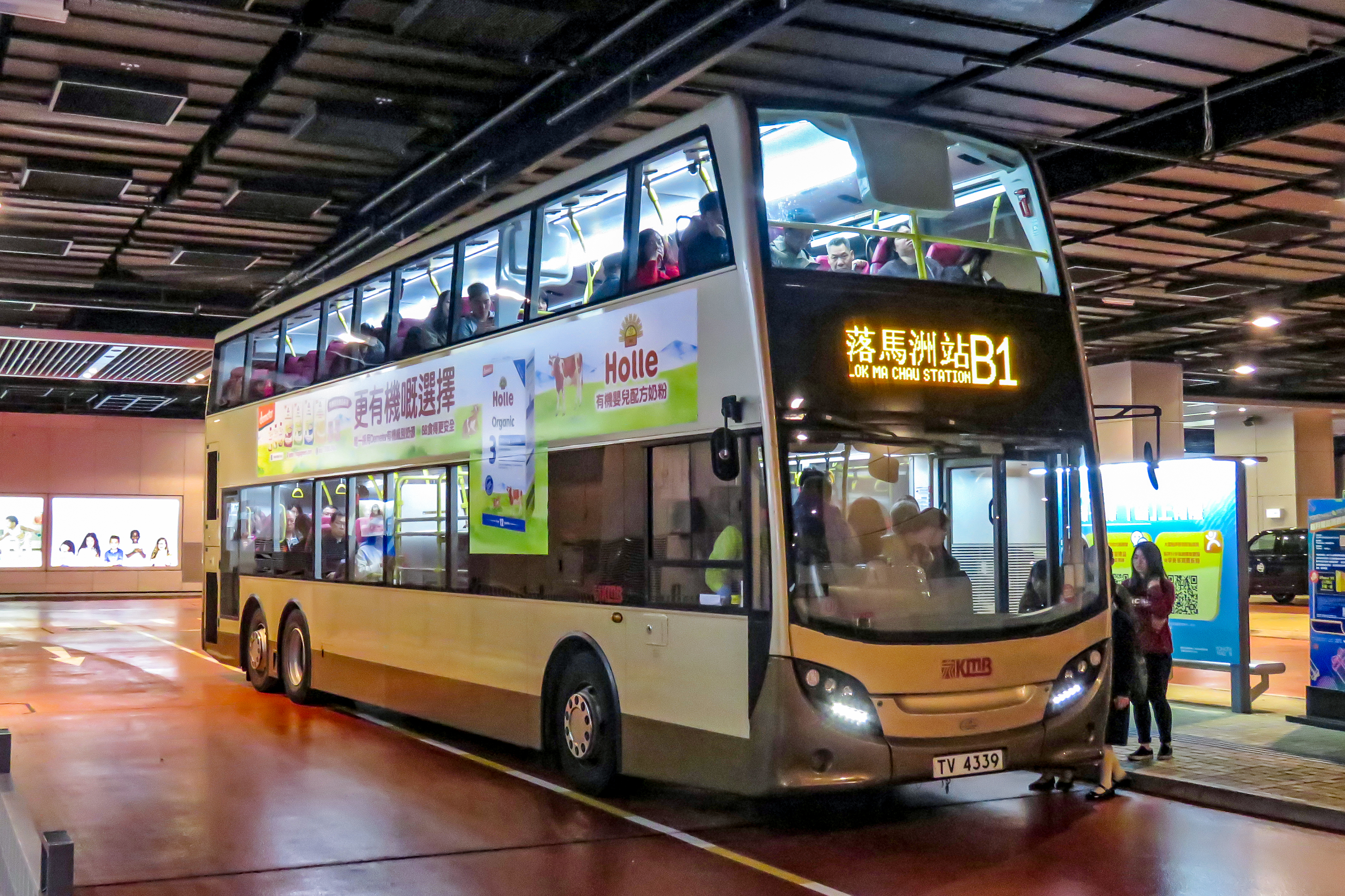 Another B1 with considerable traffic.